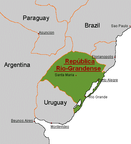 Map of the República Rio-Grandense (Riograndense Republic)